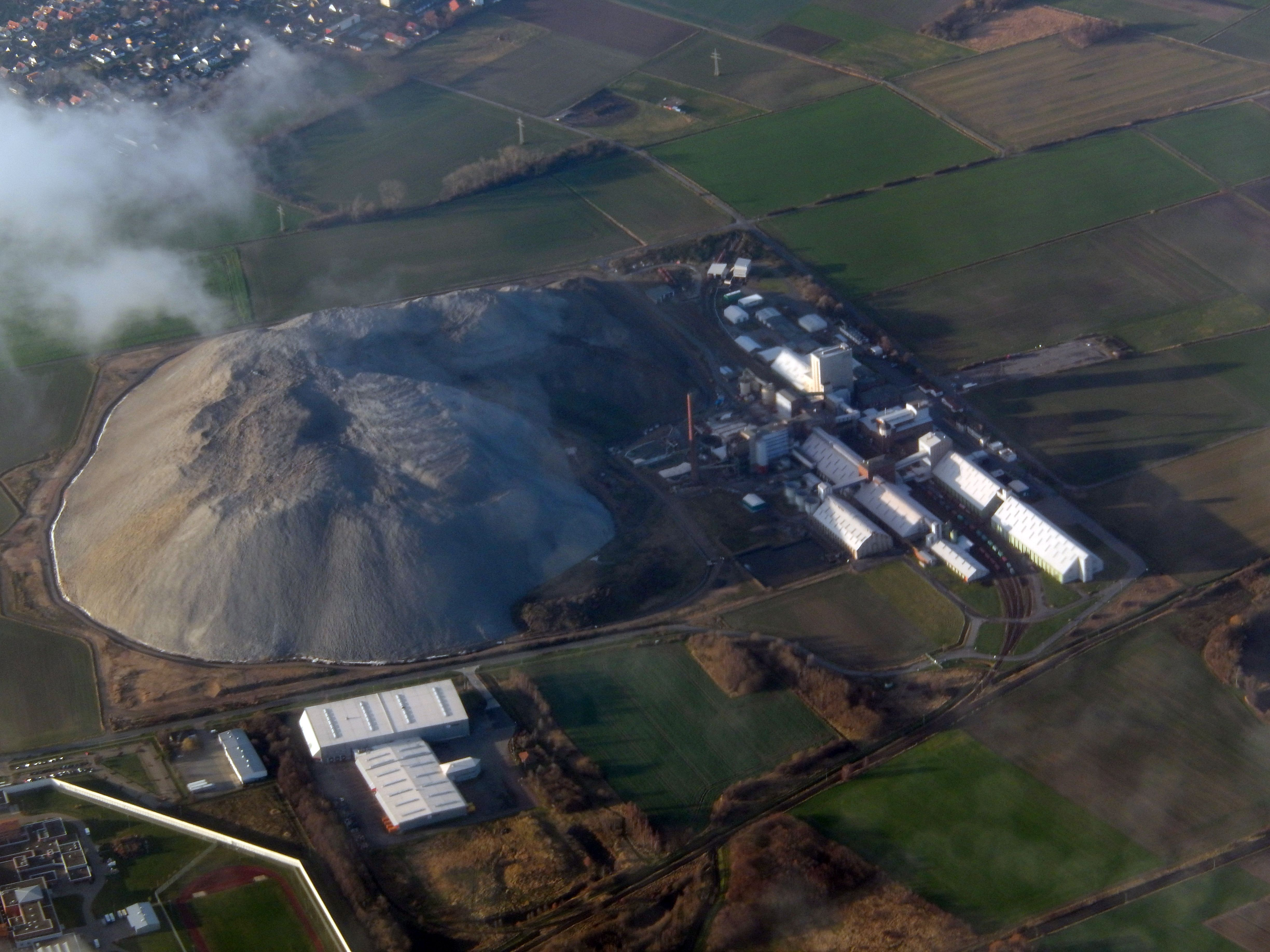 Aerial photo of Kaliwerk Hugo, Germany.